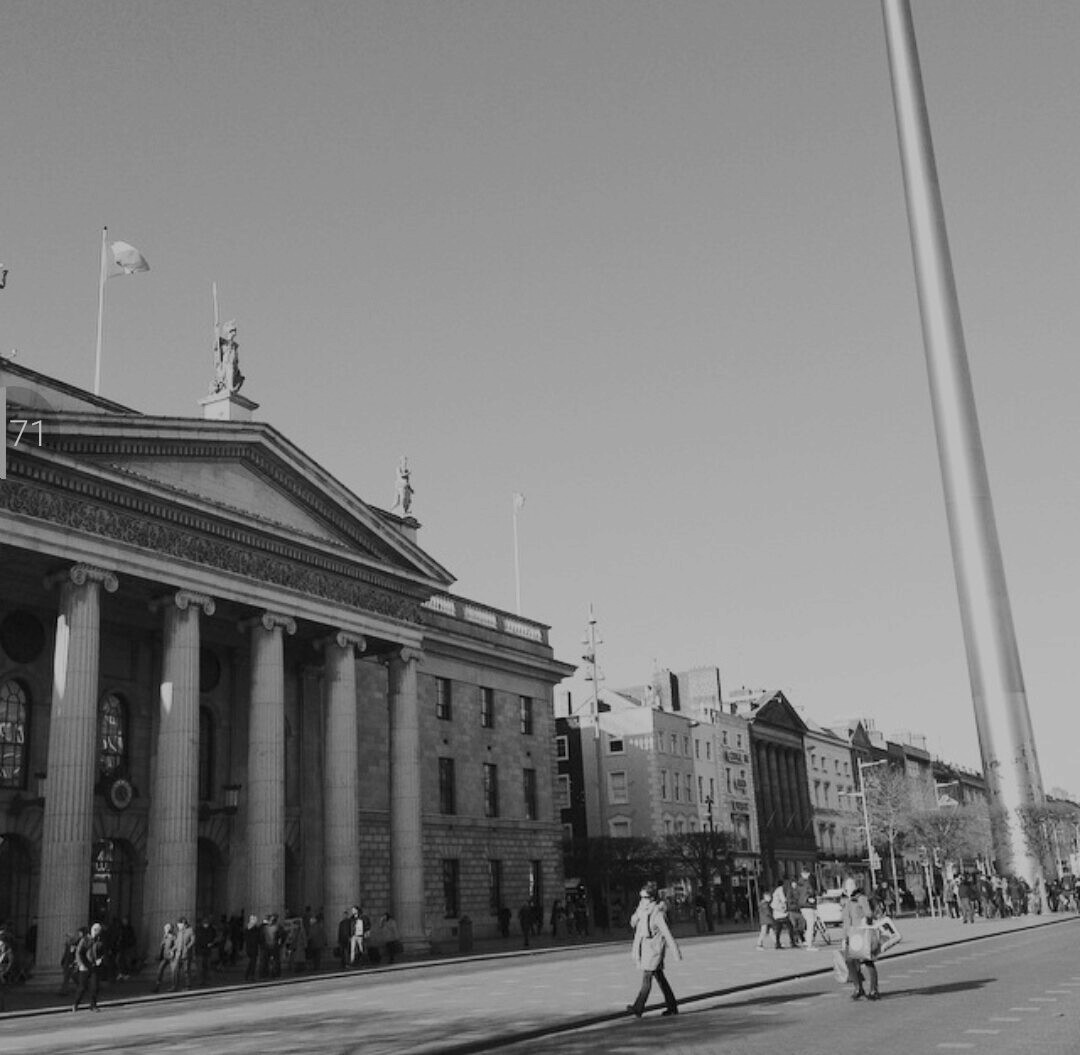 Place where Carney was with Connolly during the Easter Rising.